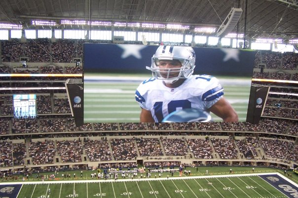 Dallas Cowboys Stadium Video Screen